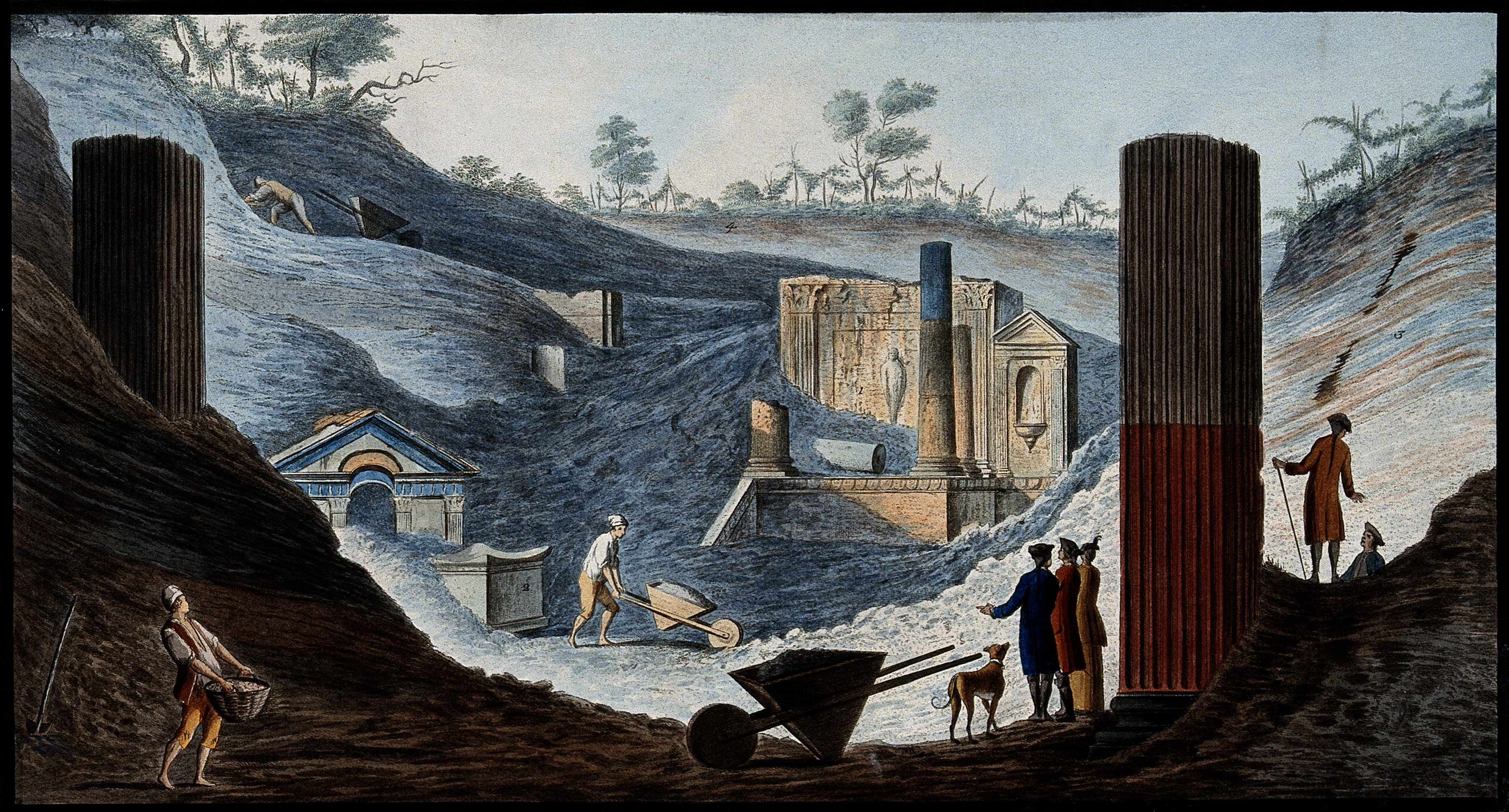 The discovery of the temple of Isis at Pompeii, buried under pumice and other volcanic matter. Coloured etching by Pietro Fabris, 1776. Iconographic Collections Keywords: William Hamilton; Pietro Fabris